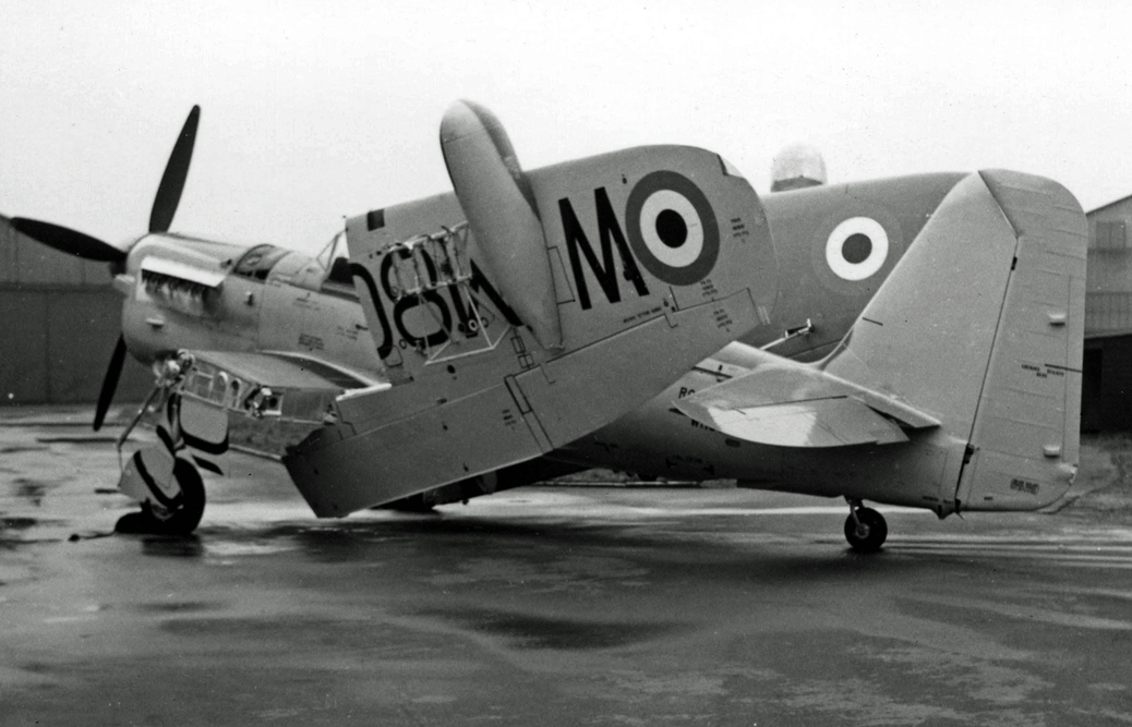 Fairey Firefly T.7 of the Fleet Air Arm at Manchester (Ringway) Airport